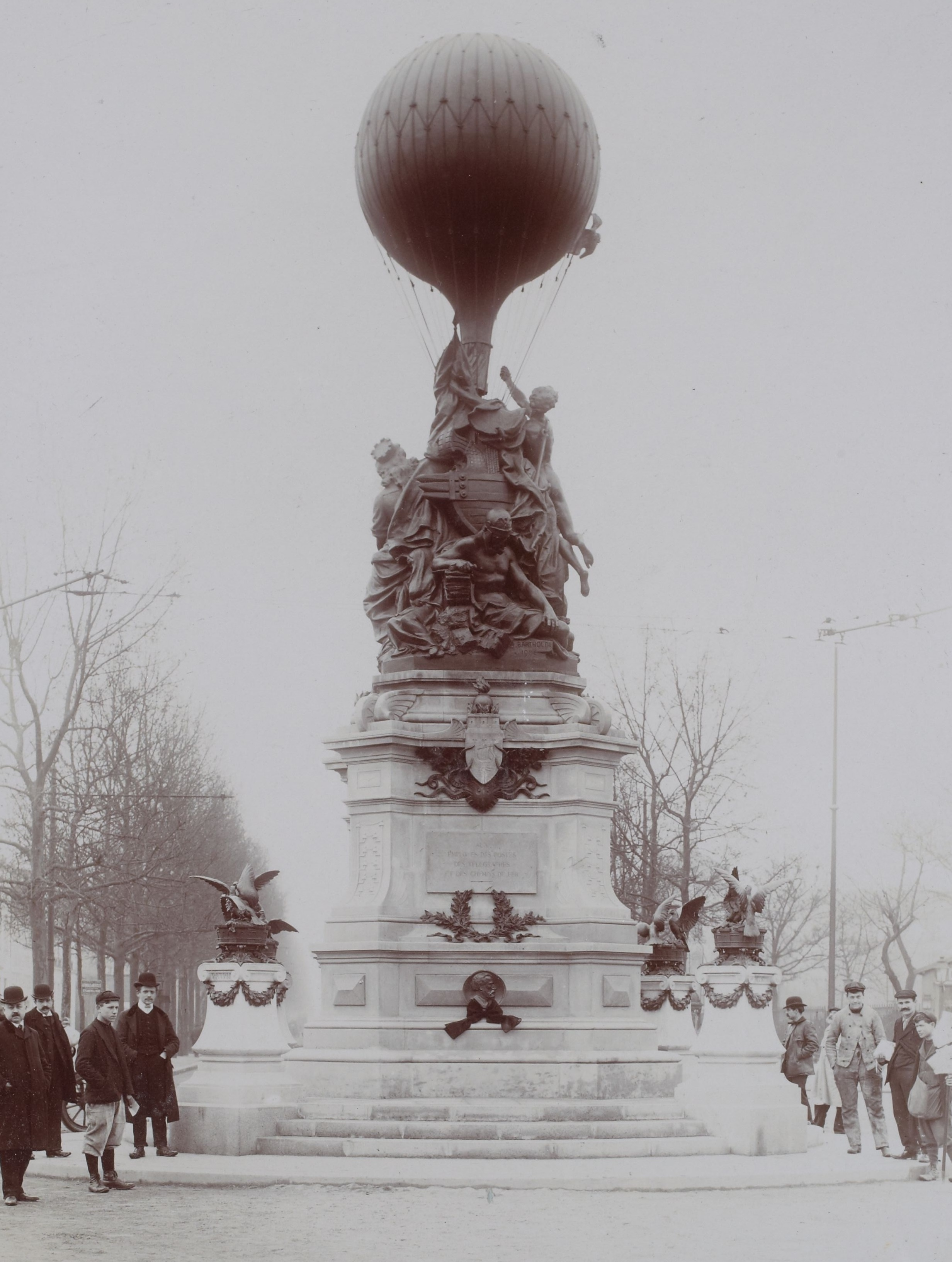 [Collection Jules Beau. Photographie sportive] : T. 31. Années 1905 et 1906 / Jules Beau : F. 25v. [Fête des Aéronautes du Siège, 28 janvier 1906]